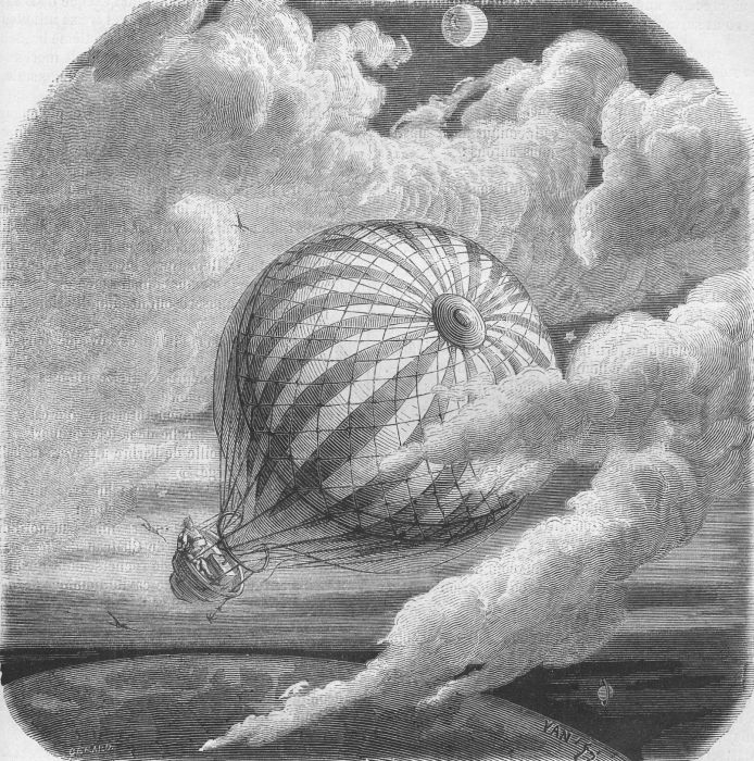 An illustration from Jules Verne's essay "Edgard Poë et ses oeuvres" (Edgar Poe and his Works,1862) drawn by Frederic Lix or Yan' Dargent.